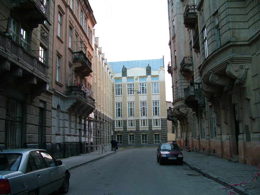 Lwów, Bourlarda str. 5 - building of former polish Academy of Foreign Trade. Photo made by S.Kosiedowski, April 30, 2005.